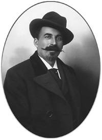 Portrait of the French photographer Jean Gilletta (1856–1933), who was active in Nice and founded a postcard company in 1897